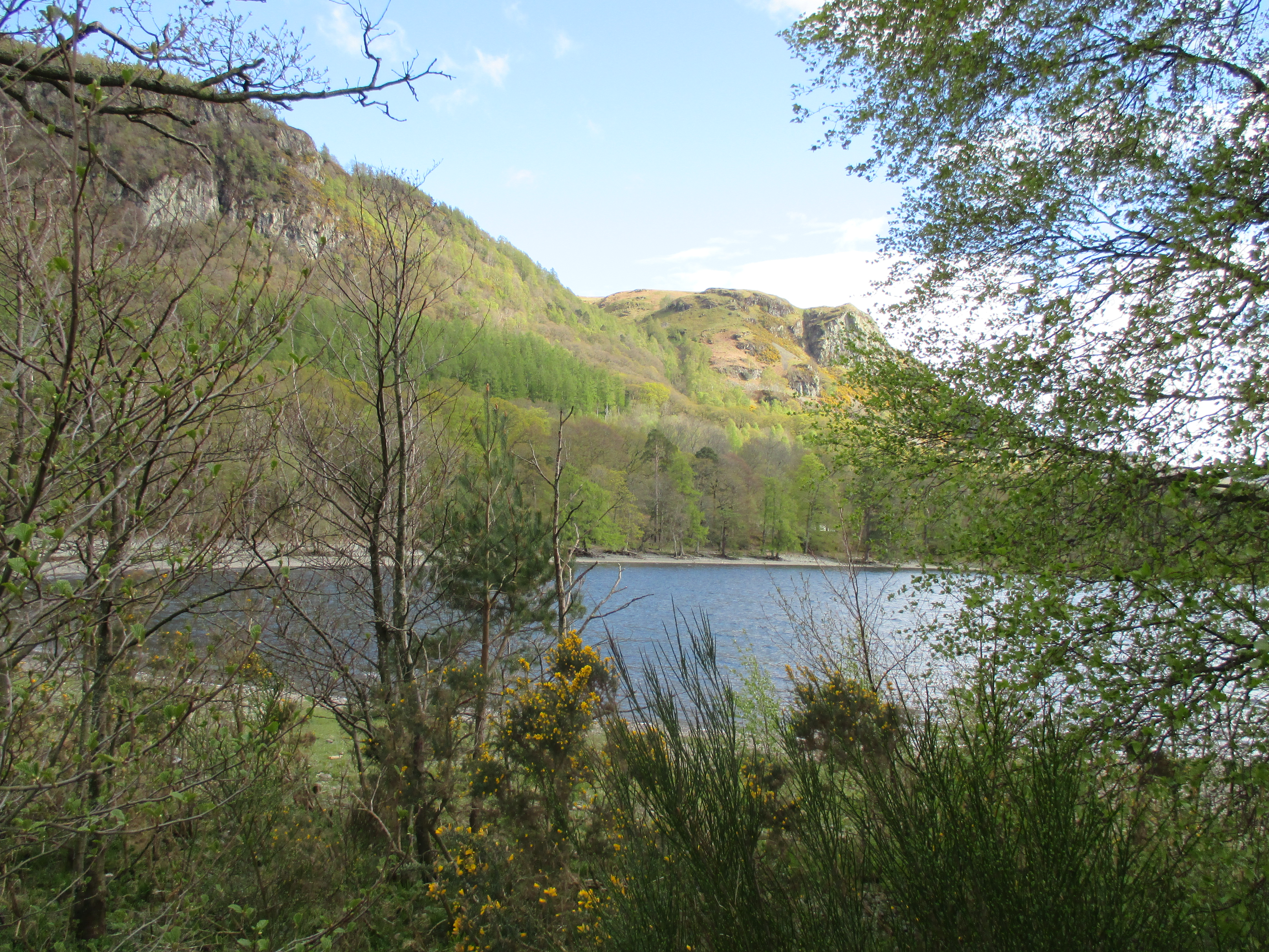 Falcon Crag, 2 miles south of Keswick, Cumbria, photographed from a mile to the north-north-west. Calfclose Bay in the middle distance.